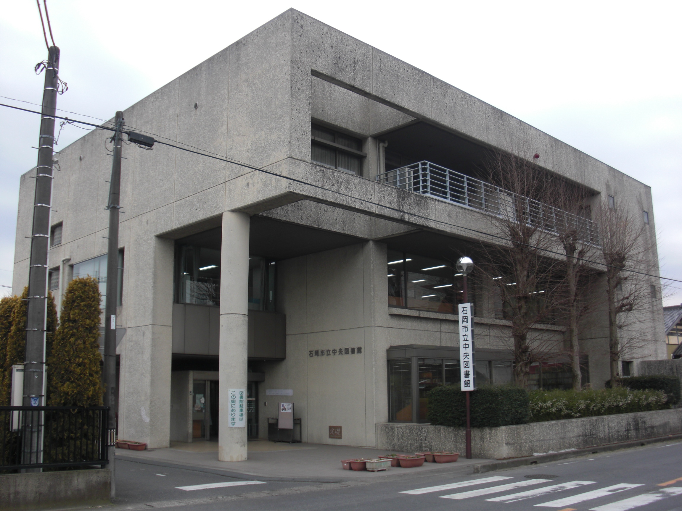 This is the Ishioka Public Library in Ishioka, Ibaraki, Japan.